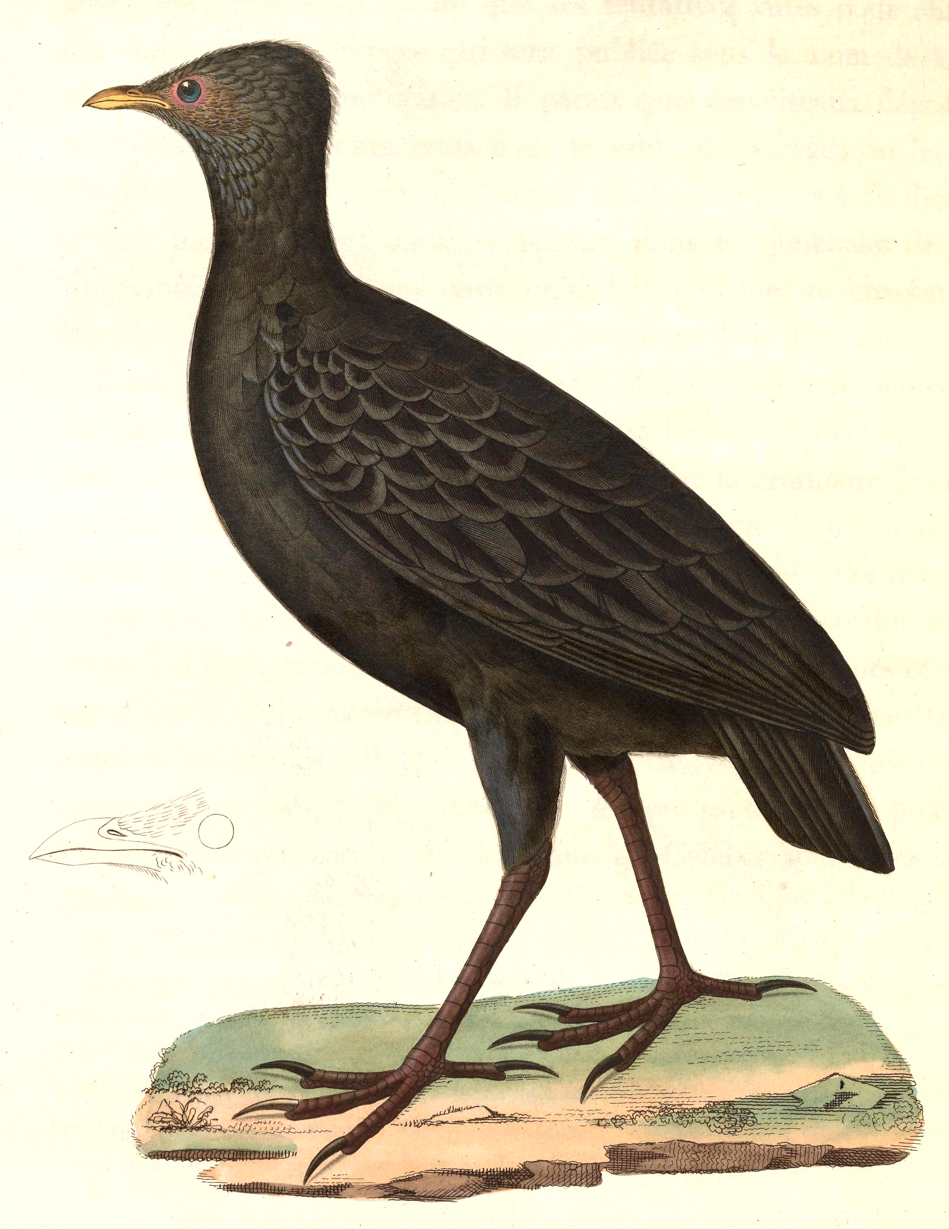 « Megapodius freycineti » = Megapodius freycinet (Dusky Megapode) - adult